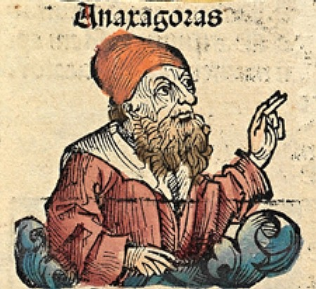 Ancient Greek philosopher Anaxagoras, depicted in the Nuremberg Chronicle